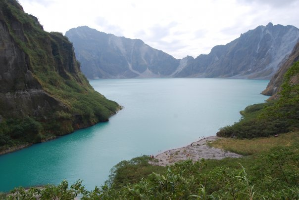 A picture of Lake Pinatubo in 2009.